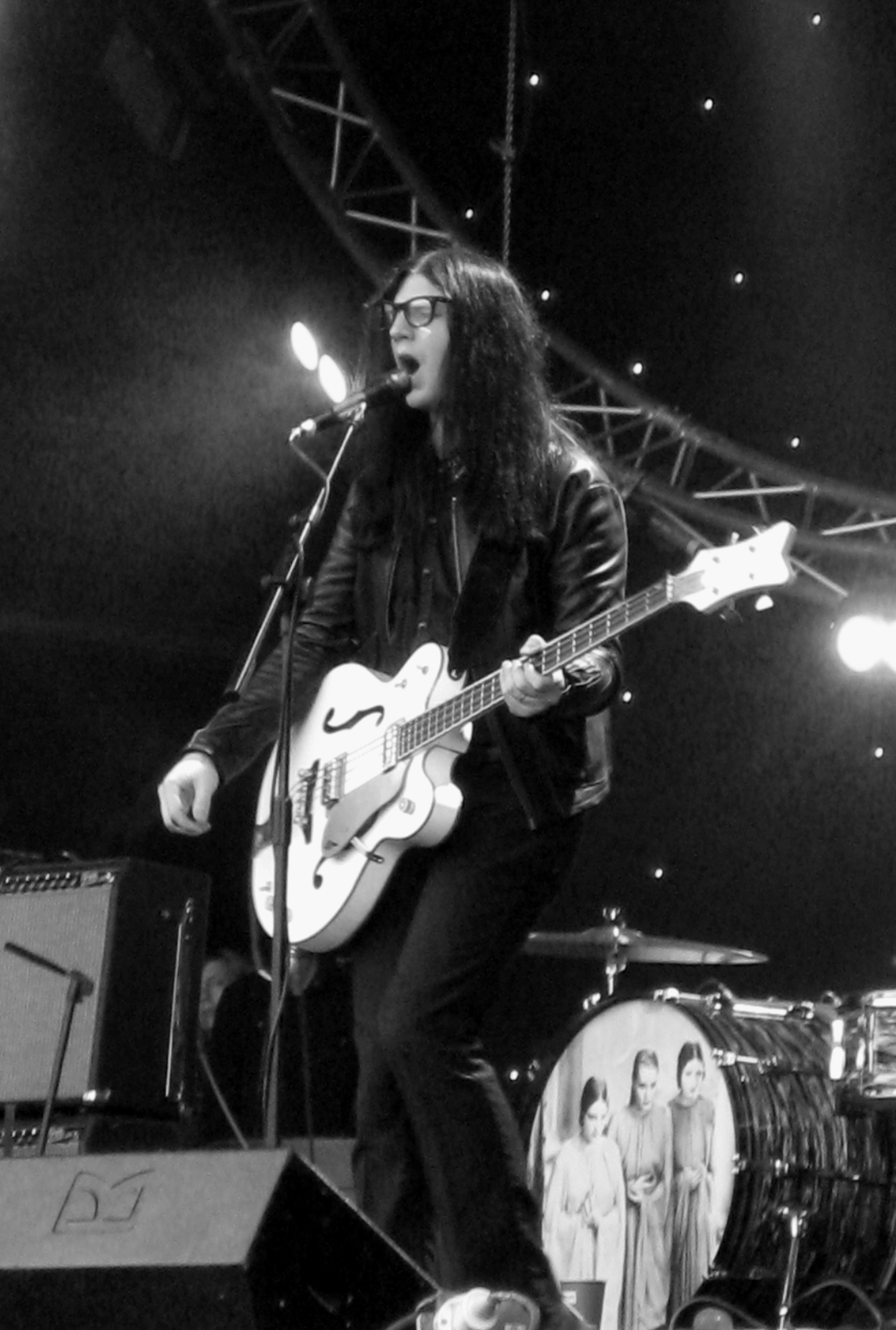 Jack Lawrence of The Dead Weather performing live at the Glastonbury Festival, 26th June 2009.